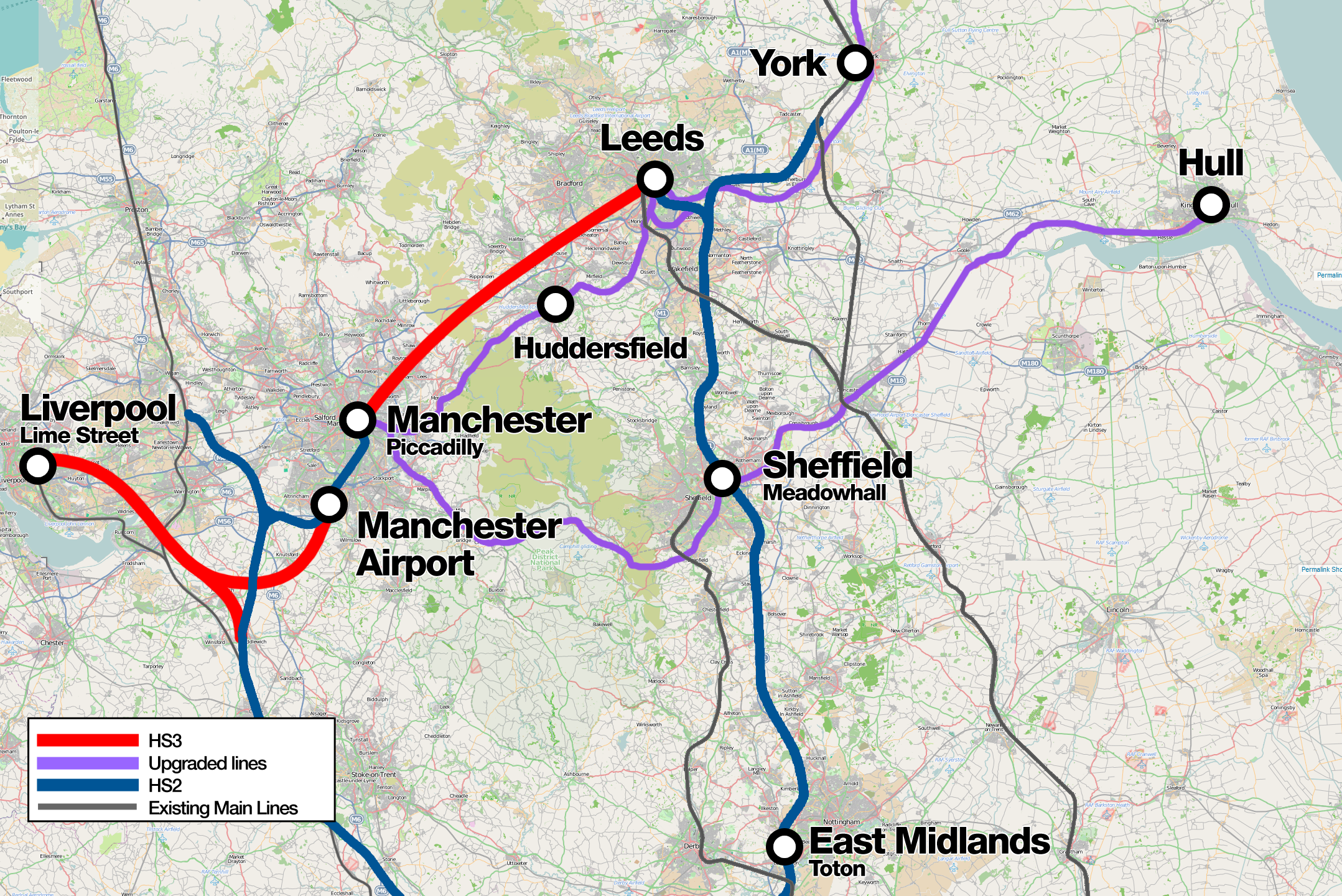 Map of the planned HS3 Liverpool-Manchester-Leeds high-speed railway in the North of England, as outlined in 2017 by Transport for the North. Shows routes for High Speed 2, the proposed High Speed 3 route, and lines to be upgraded as part of the Northern Powerhouse scheme. This map may be incomplete, and may contain errors. Don't rely solely on it for navigation.